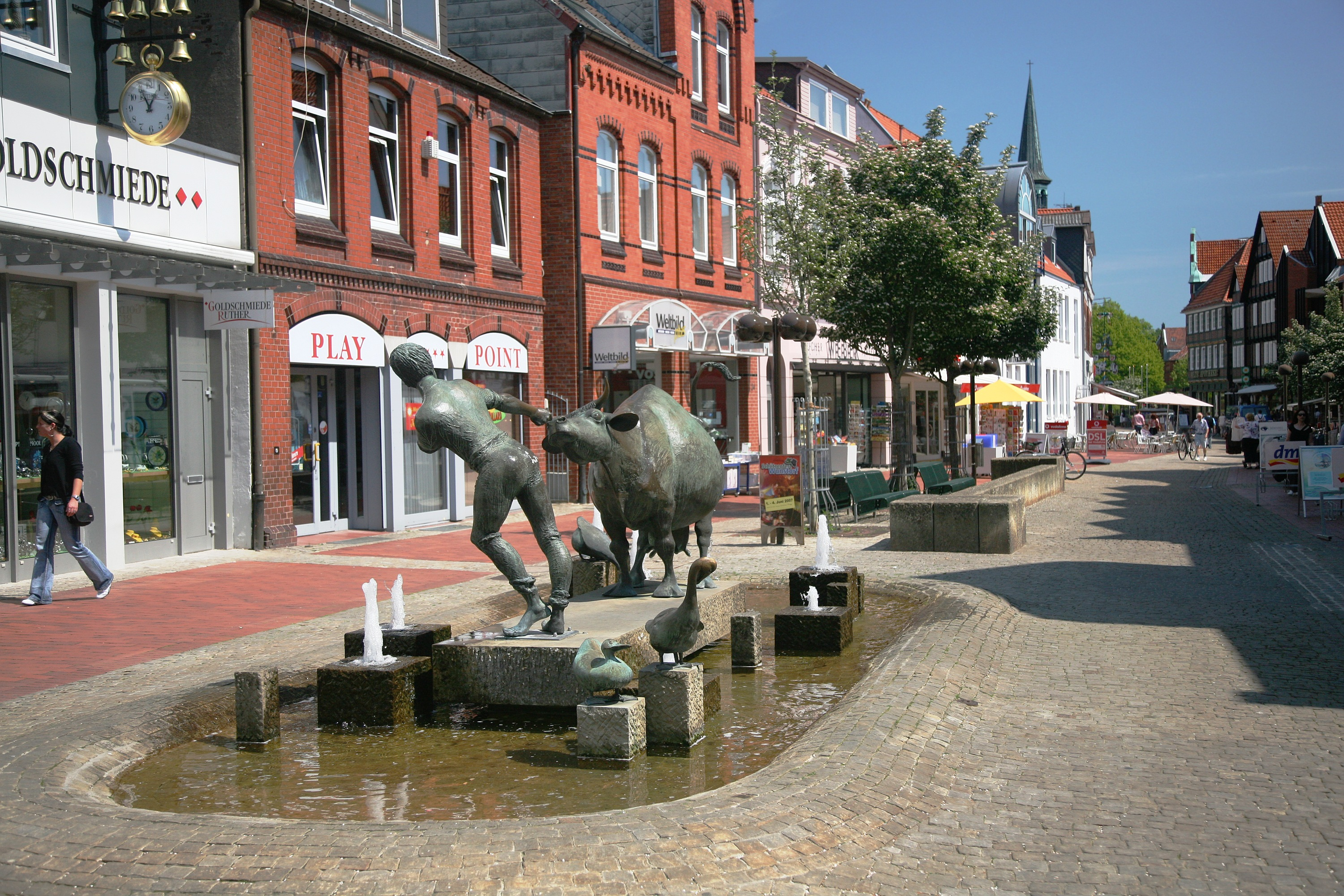 Cow fountain (Kuhbrunnen) in the pedestrianzone, Wunstorf, Germany